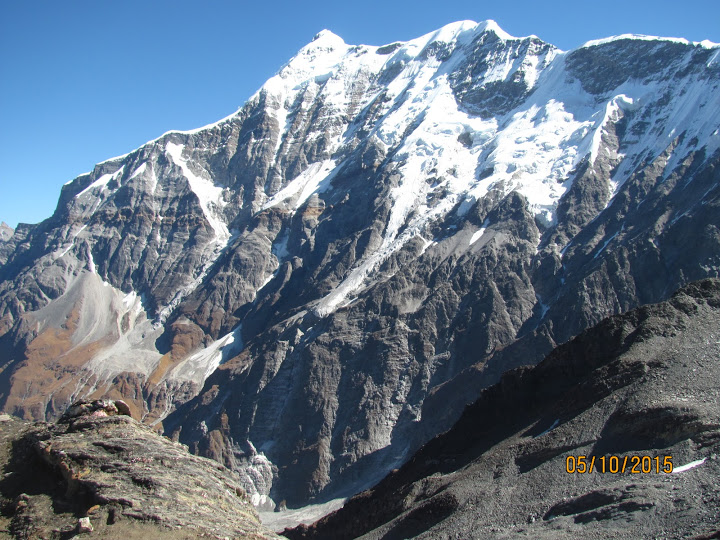 Trisul from Junar Gali